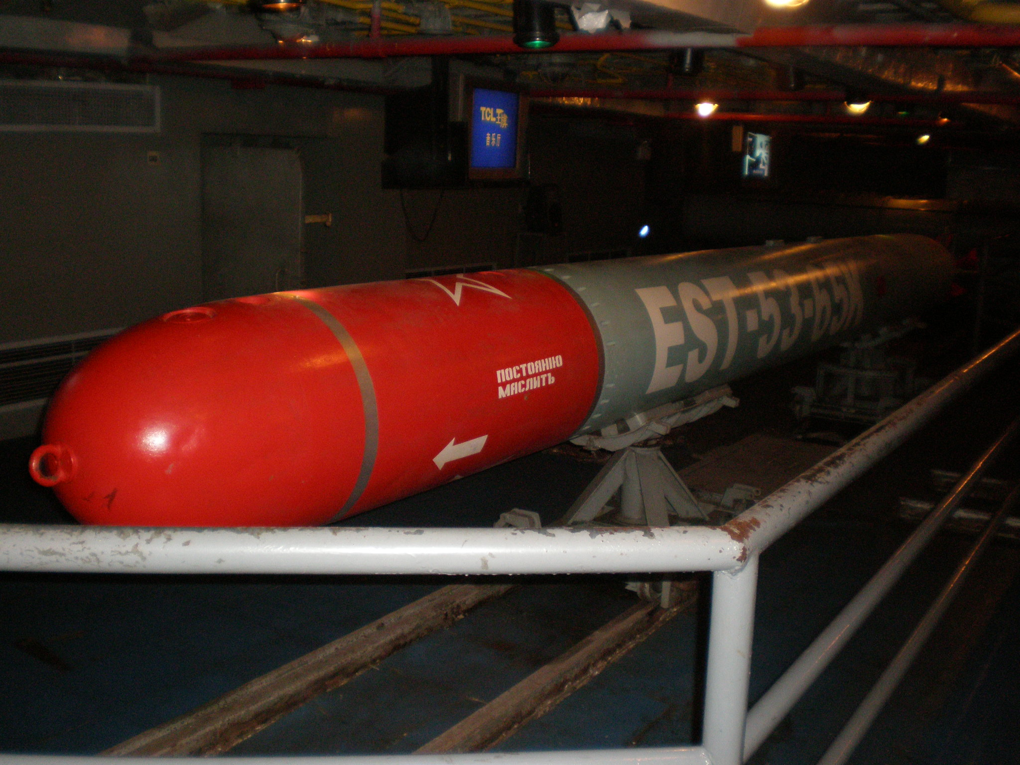 A 53-65K torpedo on display in the torpedo storage areas of the former Soviet aircraft carrier Minsk. The Minsk is the centerpiece of the Minsk World military theme park in Shenzhen, China.